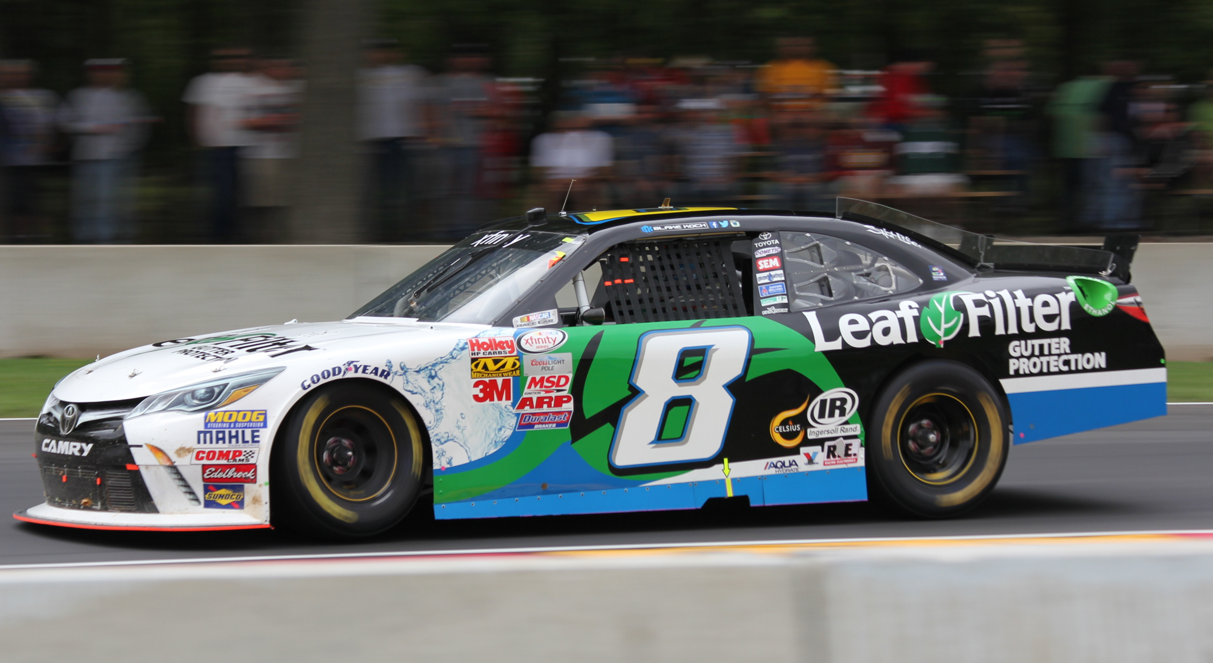 The NASCAR Xfinity Series car of Blake Koch turning left in Turn 6 at Road America.